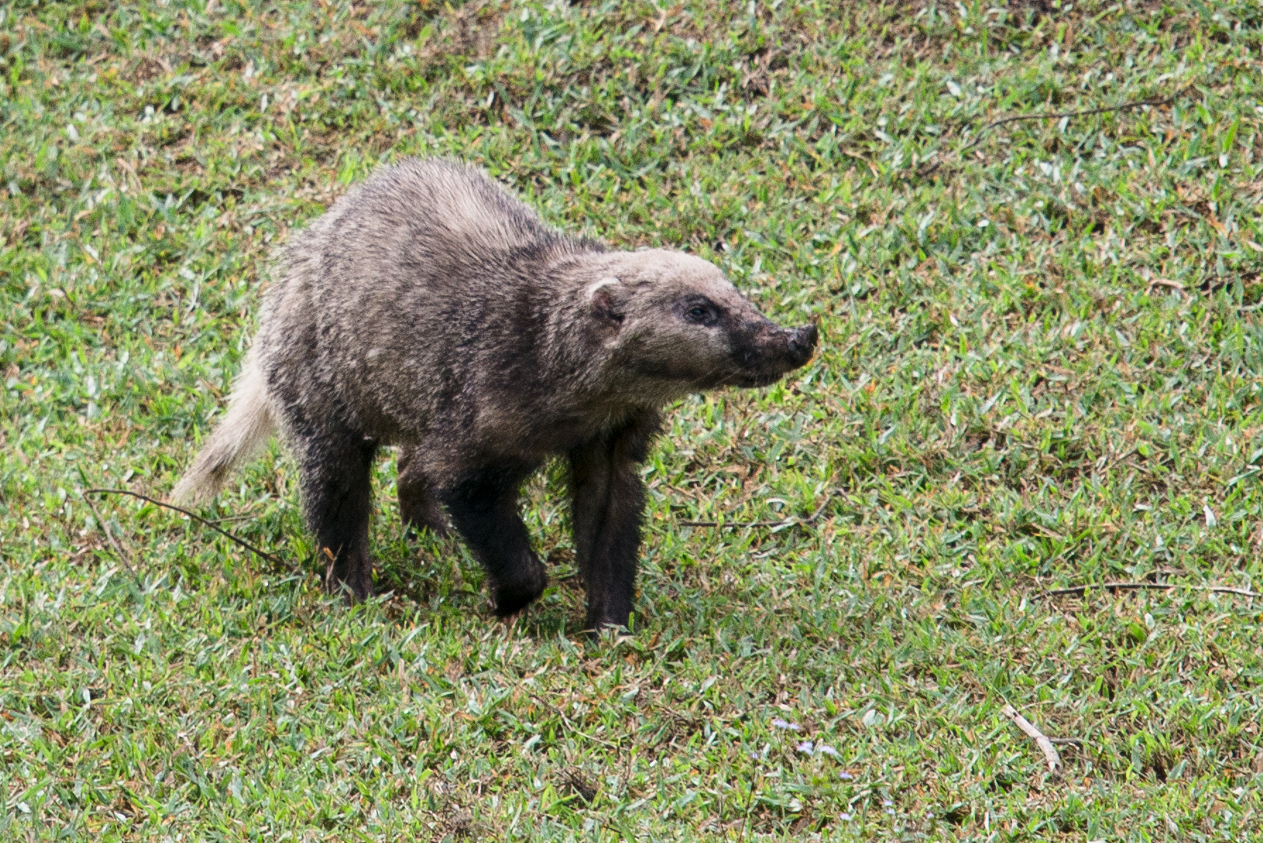 From Huai Kha Khaeng Wildlife Sanctuary, Thailand. Photo by Thai National Parks, Thailand.